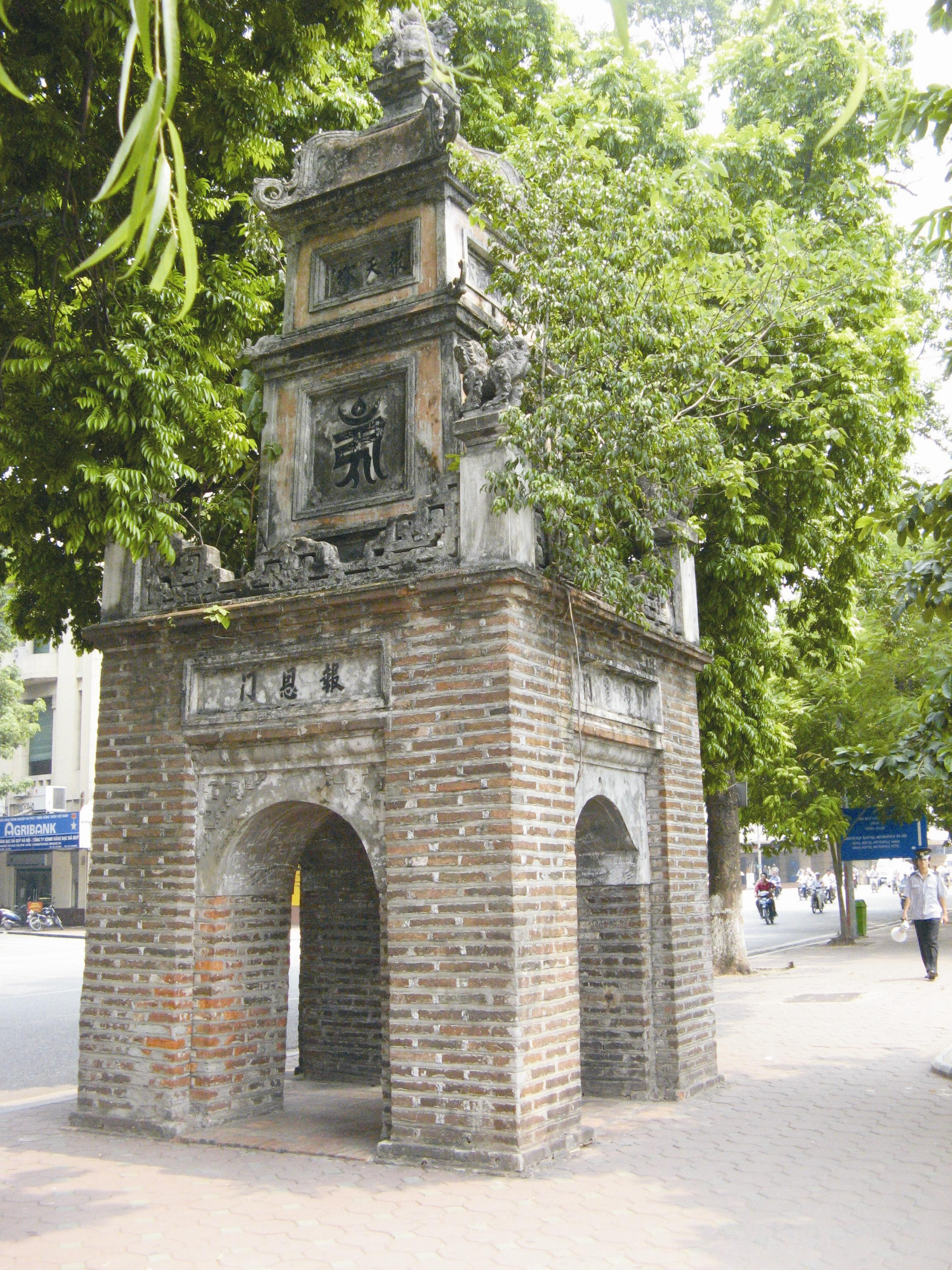 Hoa Phong tower at side of Hoan Kiem Lake